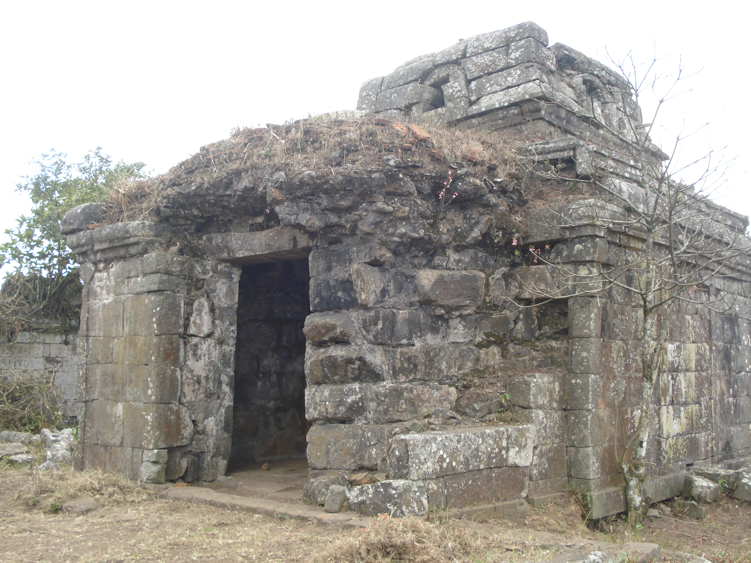 Mangaladevi Temple - an ancient temple located in Periyar Tiger Reserve.The temple is in the Kerala region of the Kerala -Tamilnadu Boarder